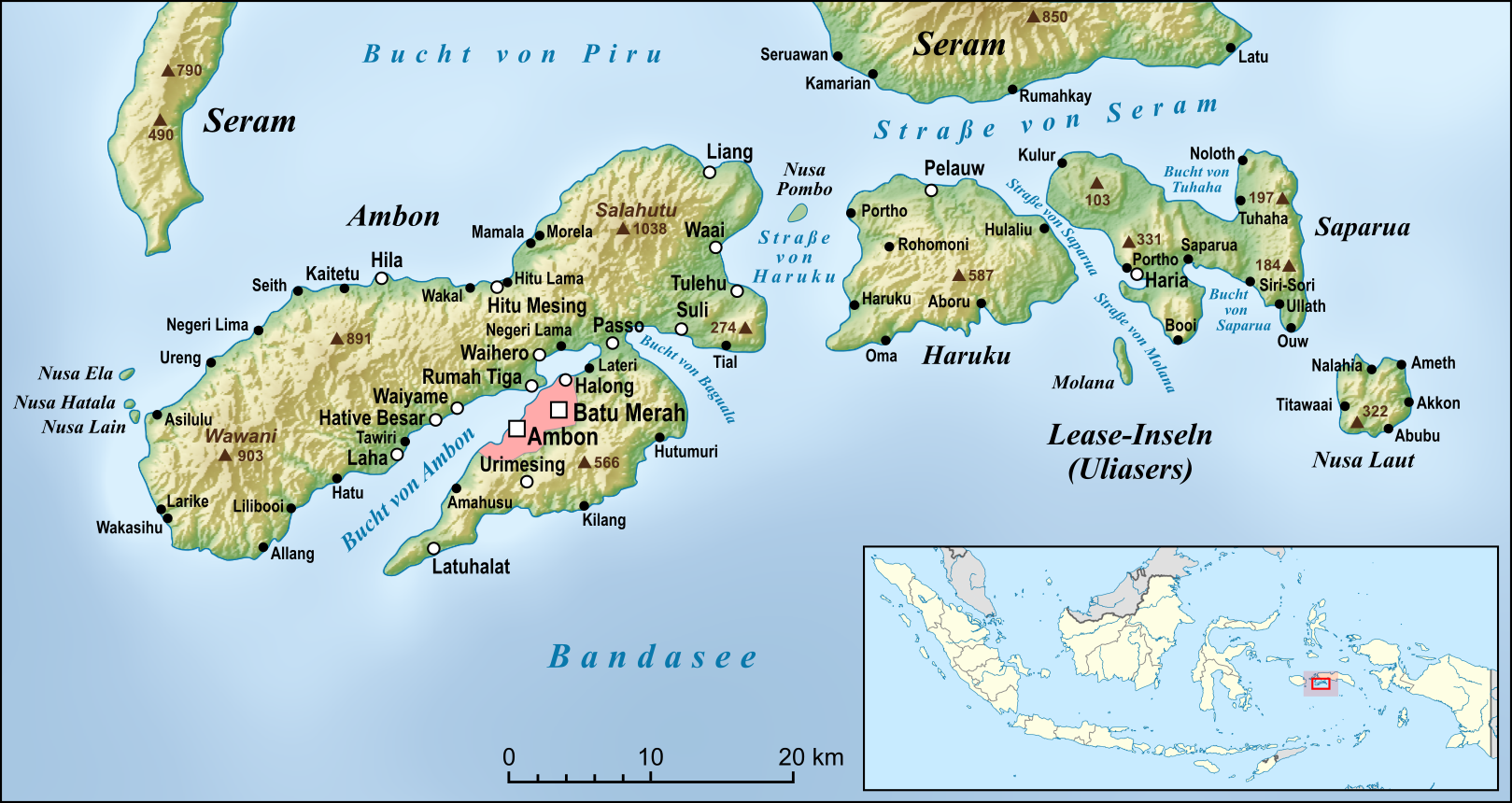 Map of Ambon Island and the Lease Islands (Uliasers), Haruku Island, Saparua und Nusa Laut